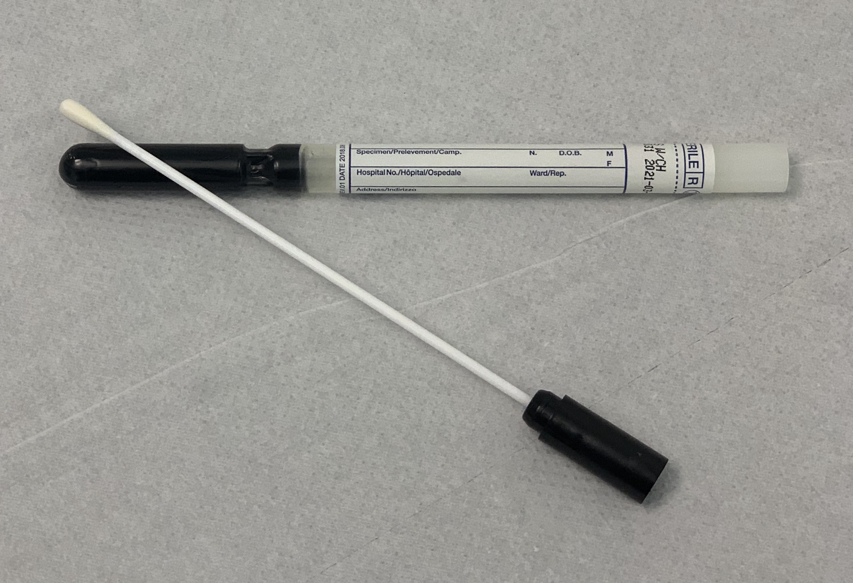 Sterile charcoal transport swab